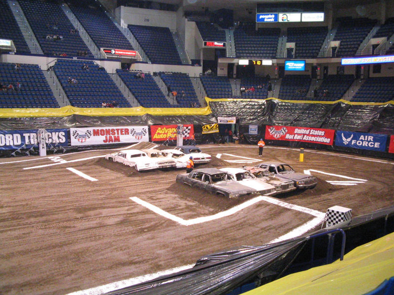 Monster Jam track setup in the Hartford Civic Center. Photo taken by Arenacale.